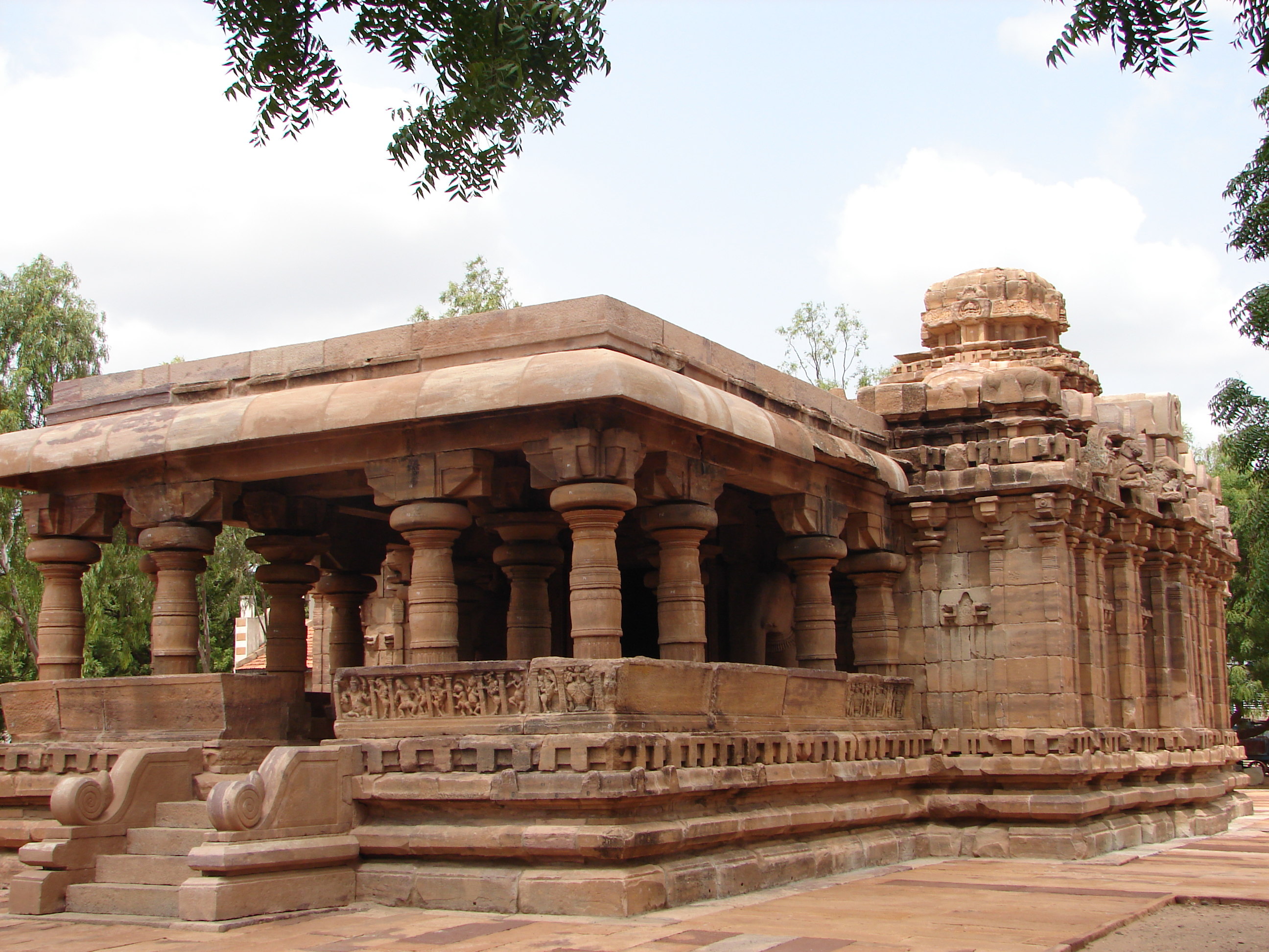 The Jain temple (called Jain Narayana temple), at Pattadakal, a UNESCO world heritage site in Karnataka, India, was constructed by either Rashtrakuta Dynasty King Amoghavarsha I or his successor Krishna II in the 9th century.